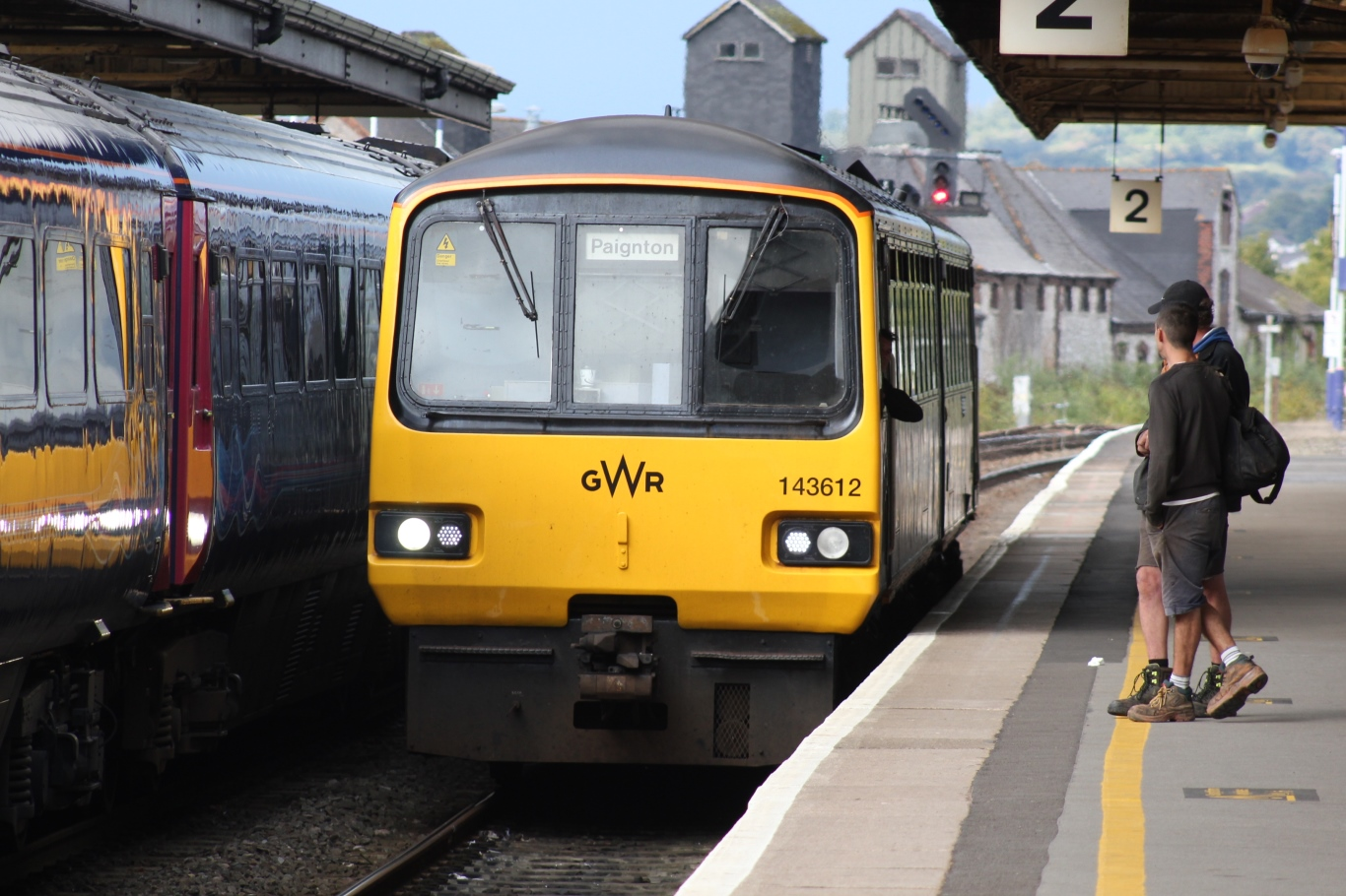 'Pacer' 143612 is arriving at Newton Abbot with a Great Western Railway service from Exmouth to Paignton.